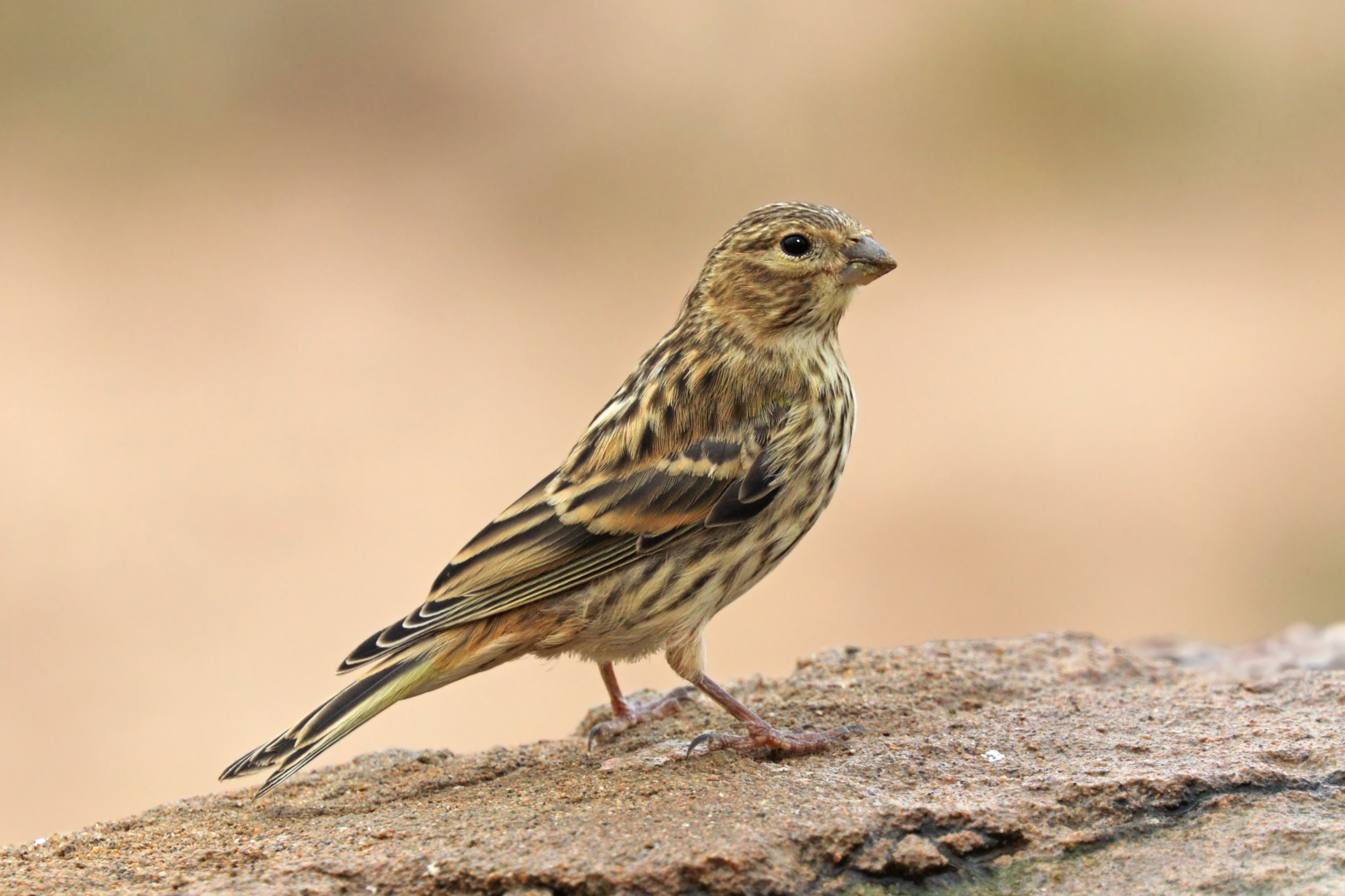 European serin (Serinus serinus) female, Souss-Massa National Park, Morocco